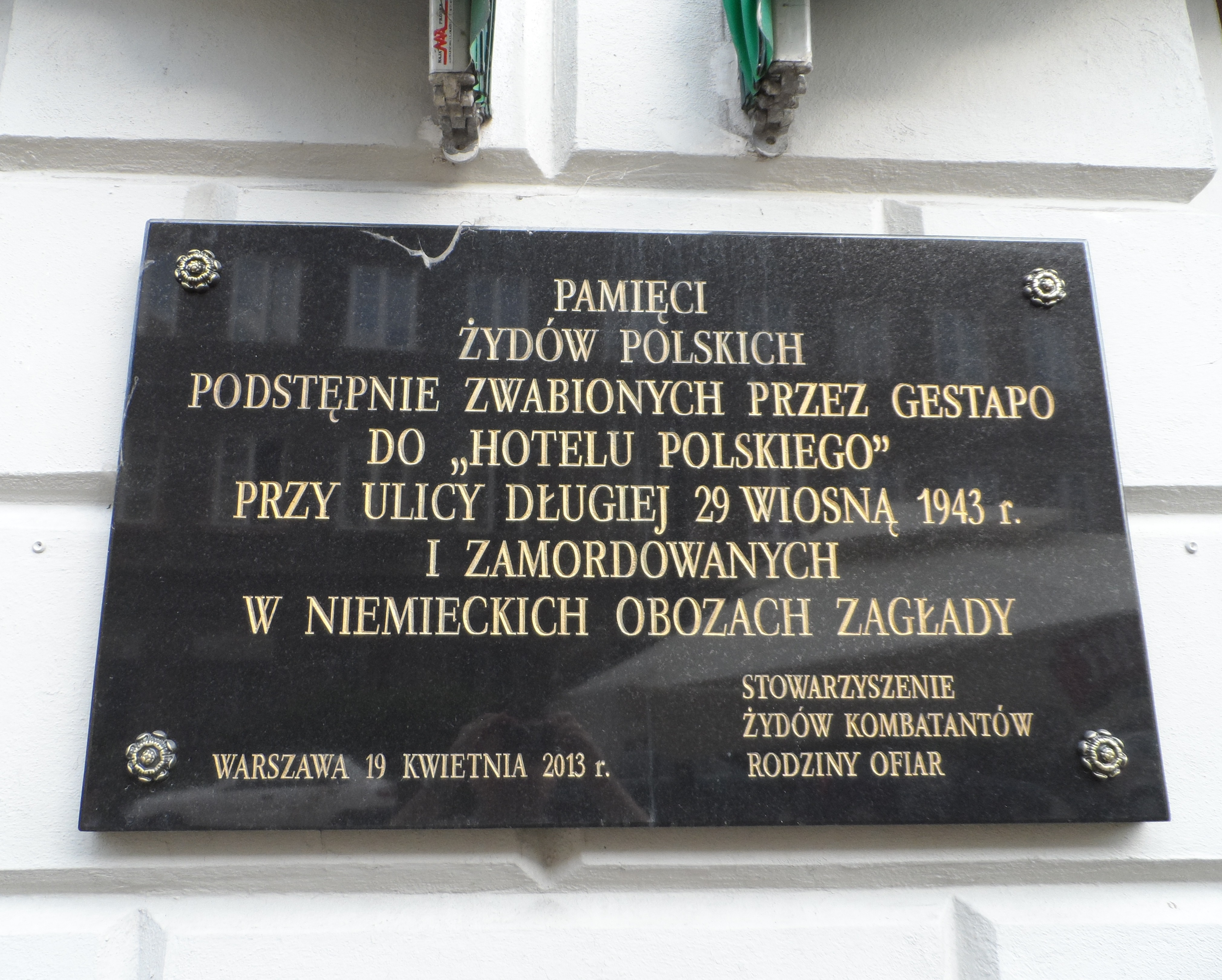 Plaque at 29 Długa Street in Warsaw (former Hotel Polski – “Polish Hotel”), commemorating almost 2500 Polish Jews interned in this building by Nazi Germans through the spring of 1943. Most of them were later murdered in German death camps or executed in the ruins of Warsaw’s Ghetto.